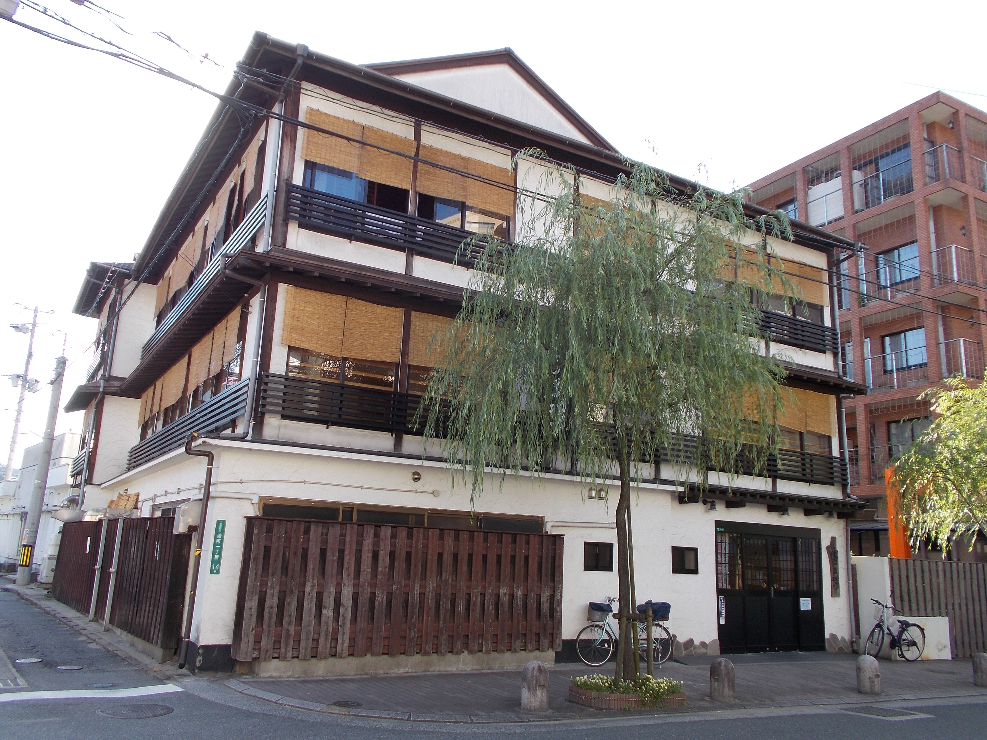 Hakata-yu, a public bath in Futsukaichi Onsen, Chikushino, Fukuoka, Japan